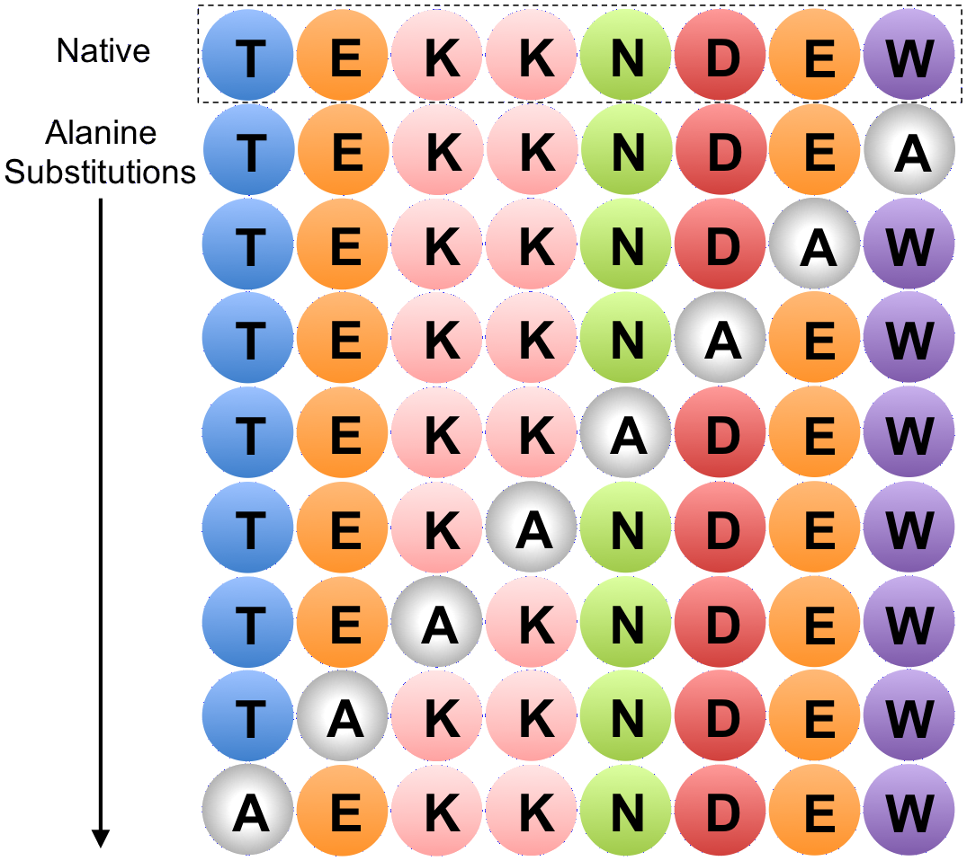 Alanine scan of hotspot residues from 1FCC.